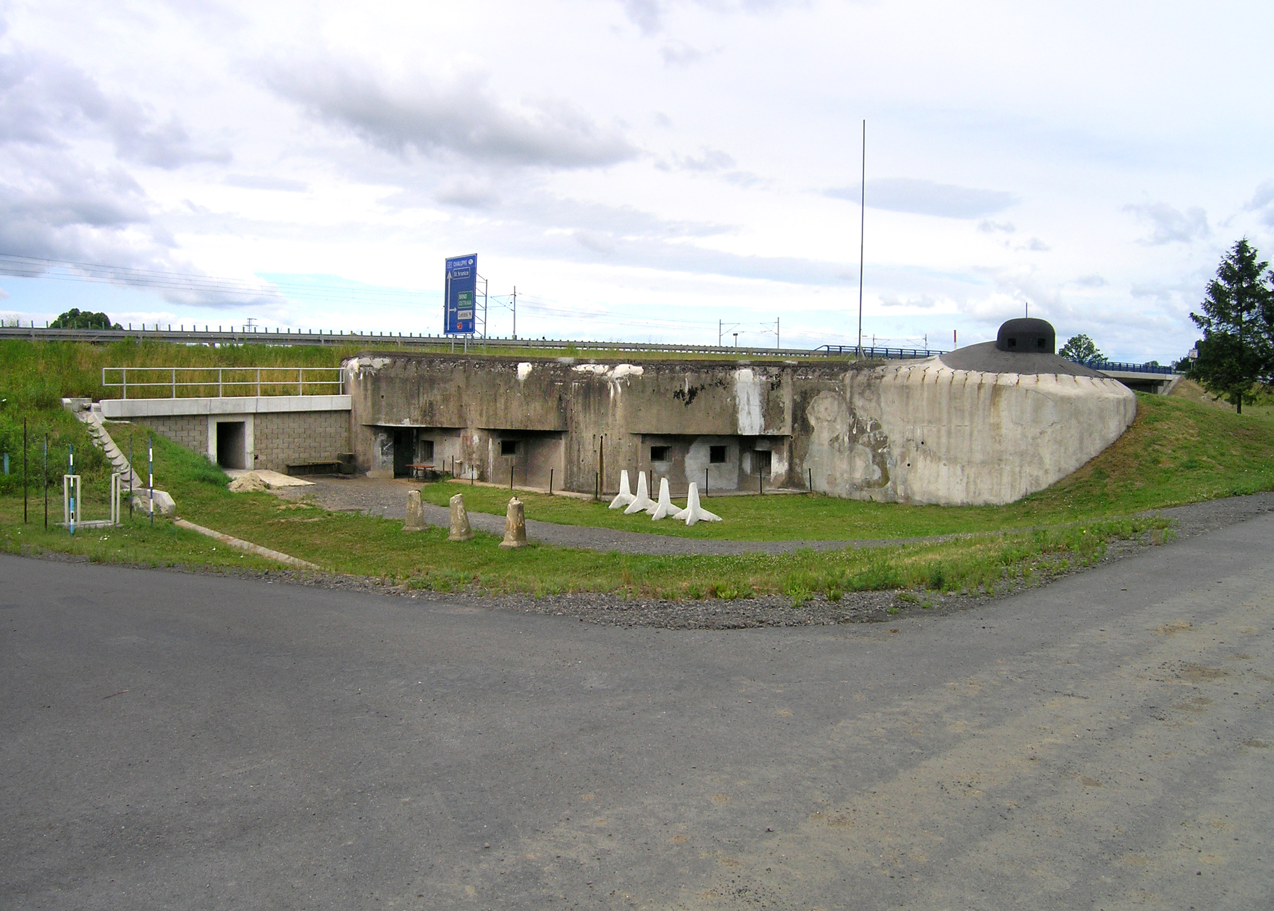 MO-S 5 "Na trati" infantry casemate of the Czechoslovak border fortifications by Bohumín, Czech Republic